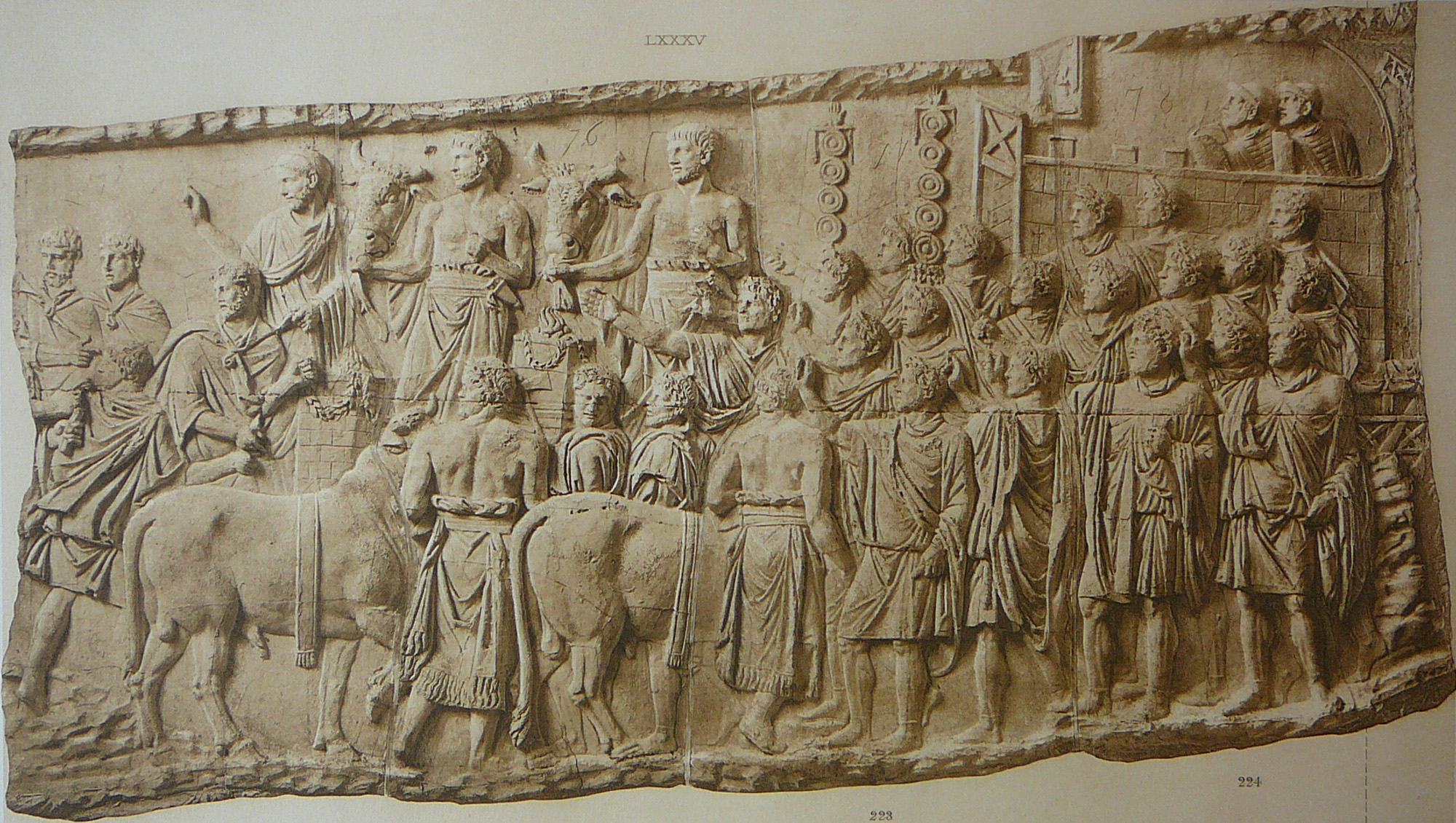 Welcoming sacrifice in Trajan’s honour (scene LXXXV)